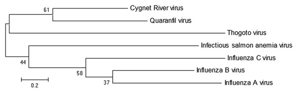 Maximum-likelihood tree showing phylogenetic relationships between Cygnet River virus isolate 10–01646 (GenBank accession no. JQ693418) and other orthomyxoviruses: Quaranfil virus isolate EG T 377 (accession no. GQ499304), Thogoto virus strain PoTi503 (accession no. AF527530), infectious salmon anemia virus isolate RPC/NB (accession no. AF435424), influenza C virus C/Yamagata/8/96 (accession no. AB064433), influenza B virus B/Wisconsin/01/2010 (accession no. CY115184), and influenza A virus A/California/07/2009(H1N1) (accession no. CY121681). Tree was based on deduced amino acid sequences of the complete matrix protein of orthomyxoviruses, applying 1,000 bootstrap replicates (6). Numbers at nodes indicate percentage of 1,000 bootstrap replicates. Scale bar indicates nucleotide substitutions per site. Figure 2 of Kessell et al. (2012) Cygnet River Virus, a Novel Orthomyxovirus from Ducks, Australia. Emerg. Infect. Dis. 18